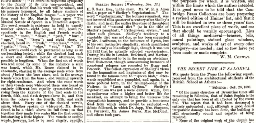 Notes from "Shelley's Vegetarianism" in The Academy, no. 968, page 482.